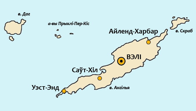 Map of Anguilla in Belarusian